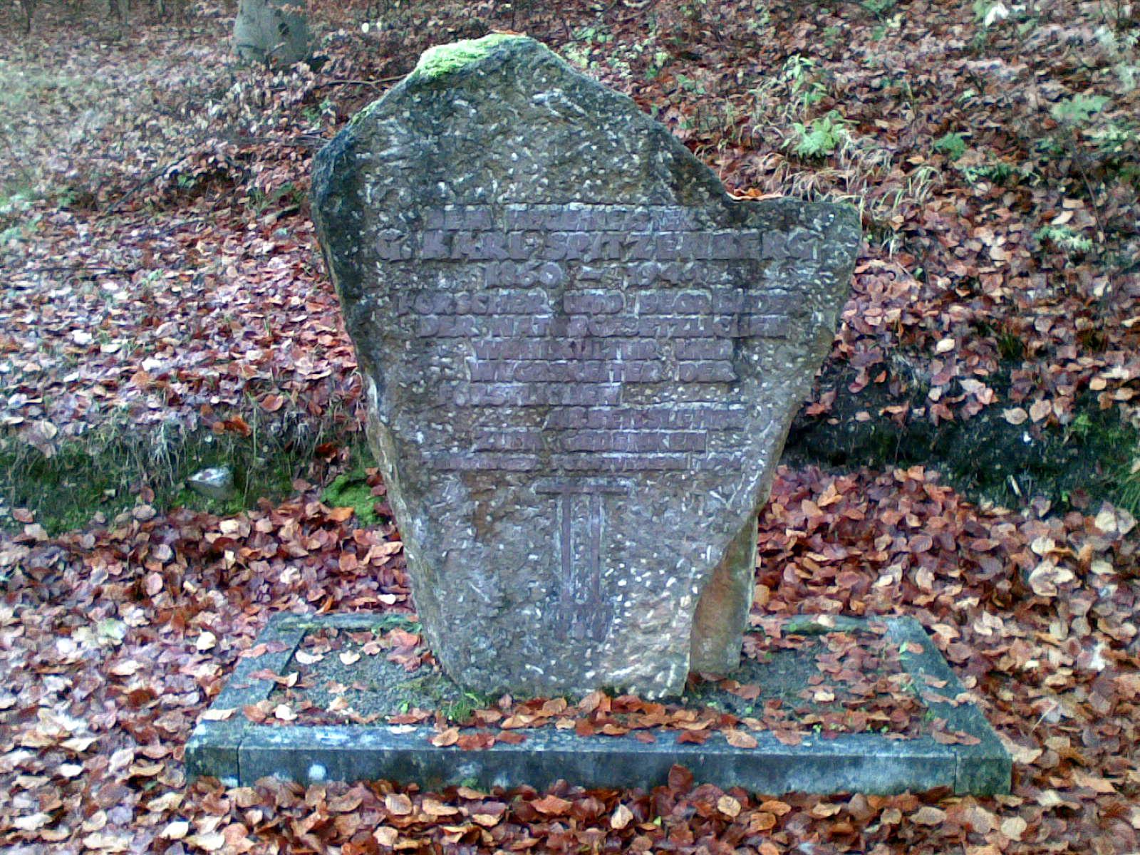 this is the memorial stone with engraved comments about Karl Spitzenberg. This stone can be publicly vewed in Martinfeld, Thuringia in Germany